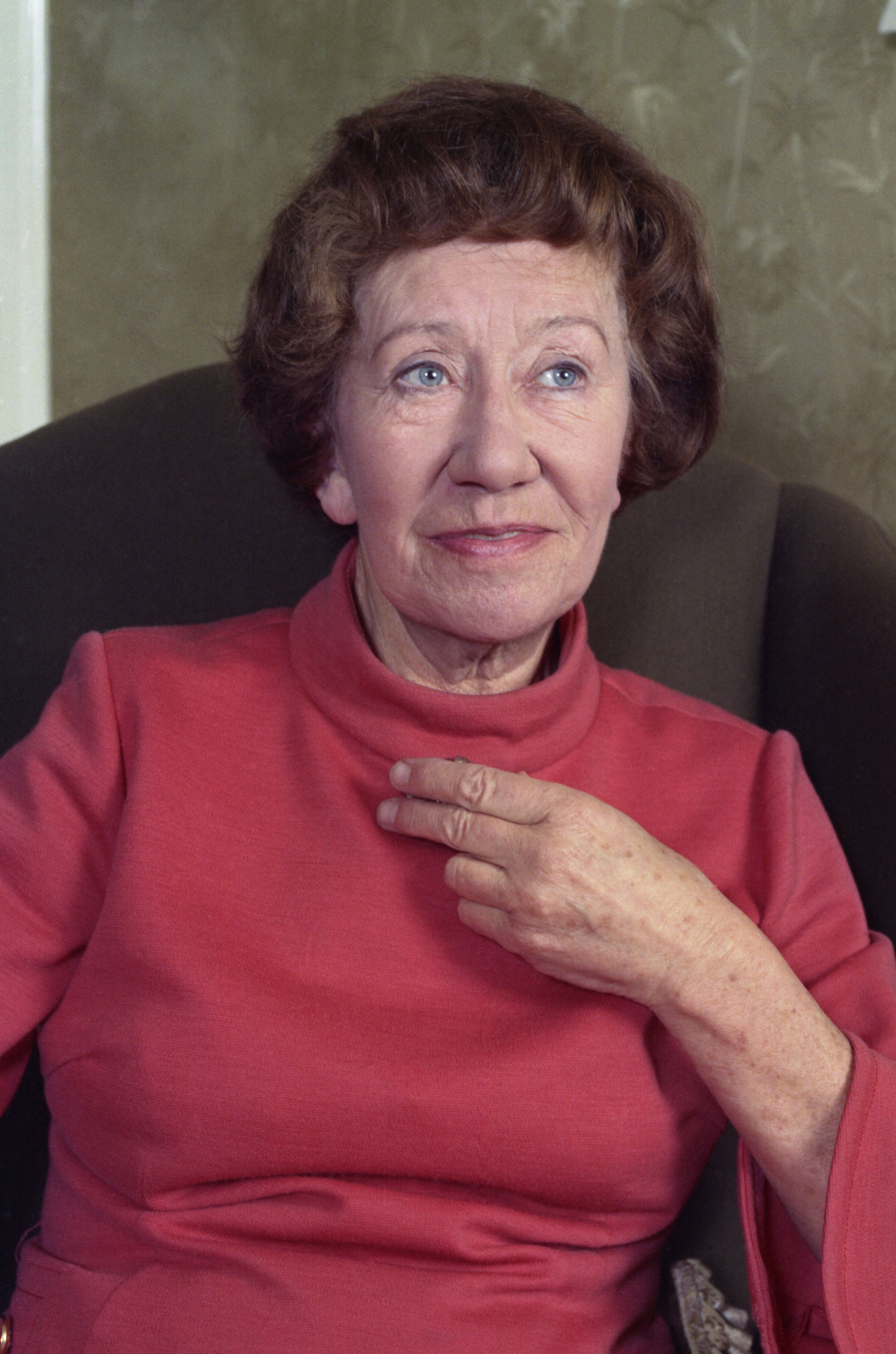 Dam Flora Robson at home in Brighton, England